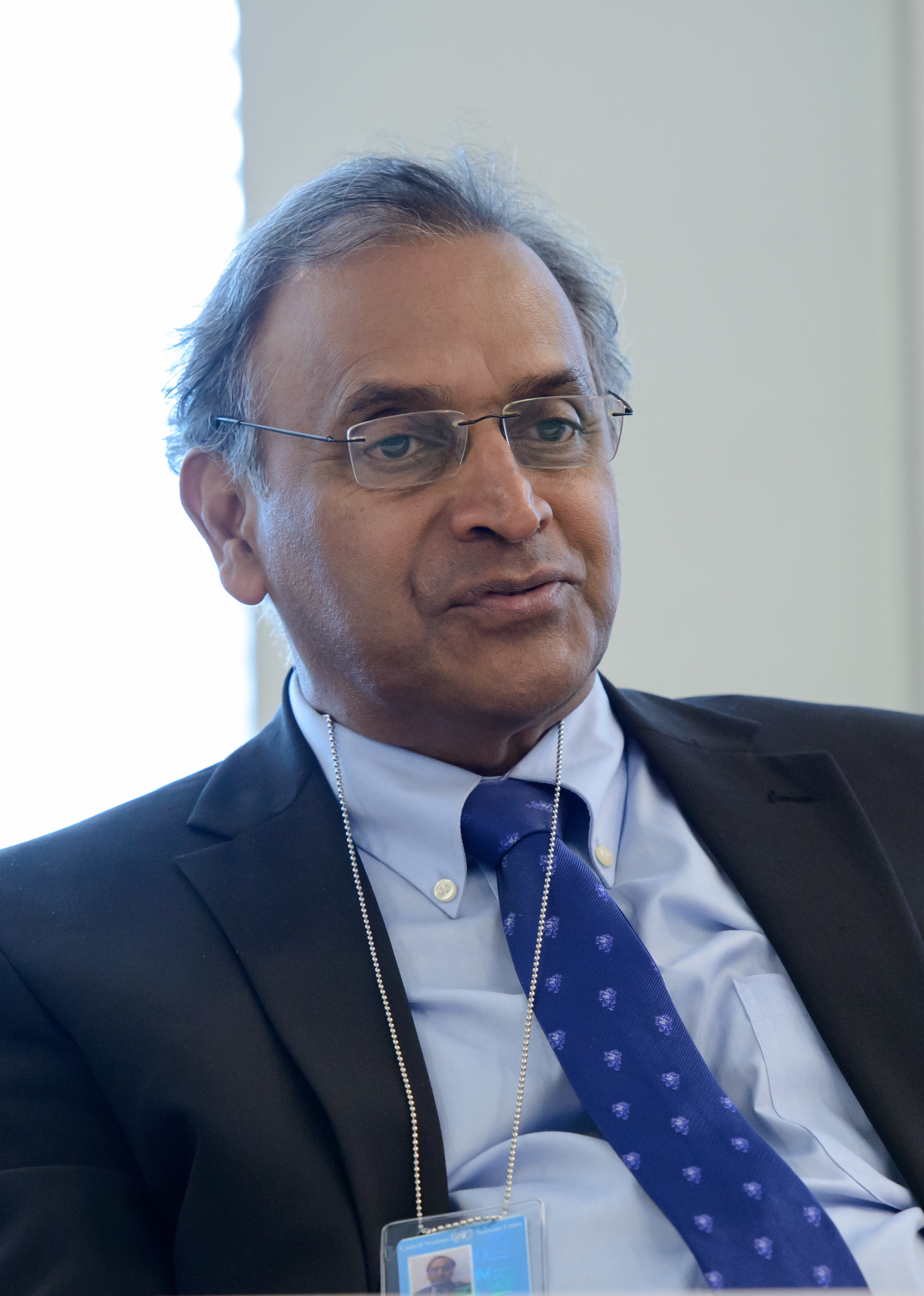 Photograph of Dr.Jayantha Dhanapala.